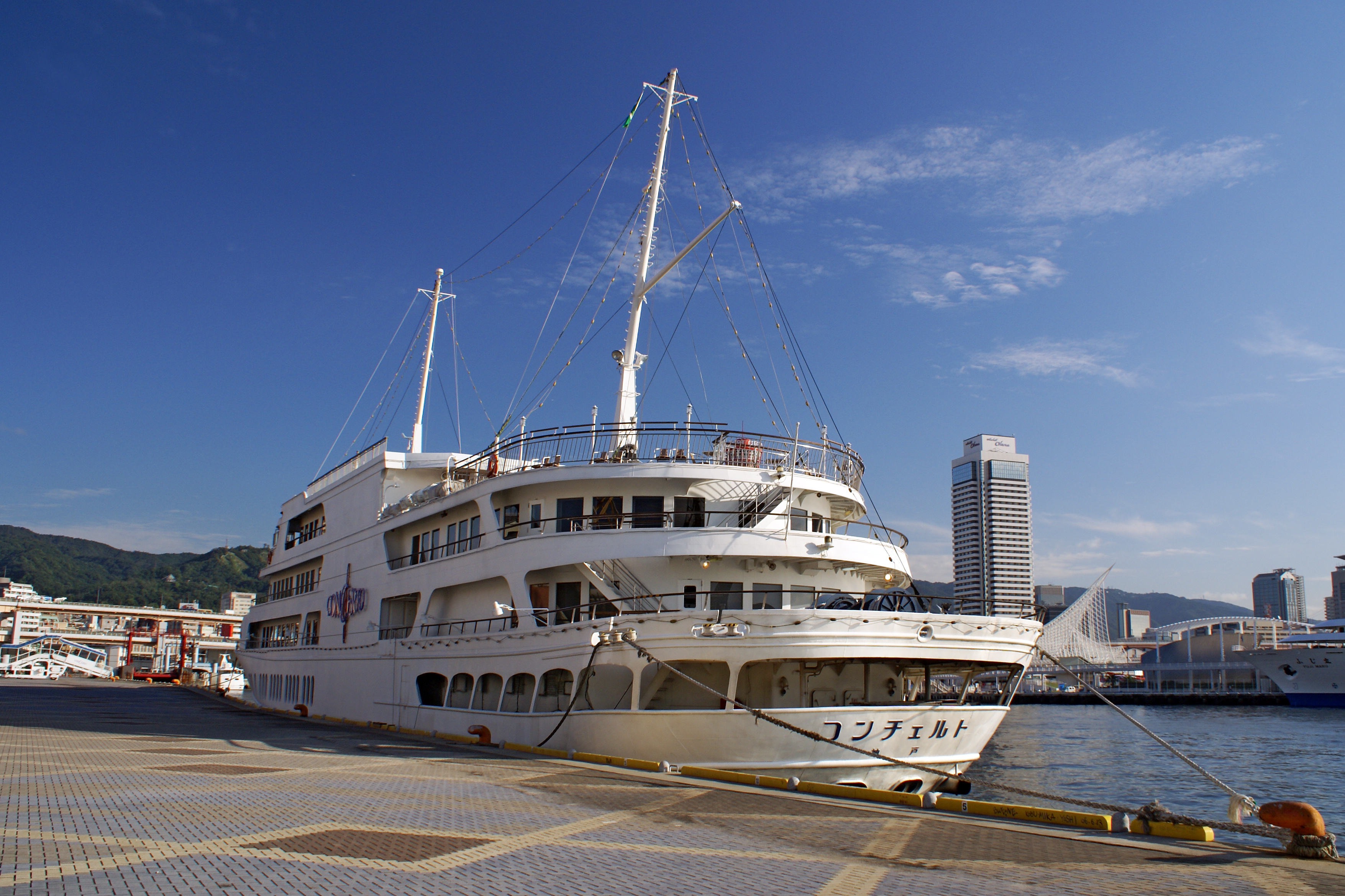 "Concerto" who anchors at the Harborland "Takahama-ganpeki" of the Kobe harbor ( Kobe, Hyogo prefecture, Japan)